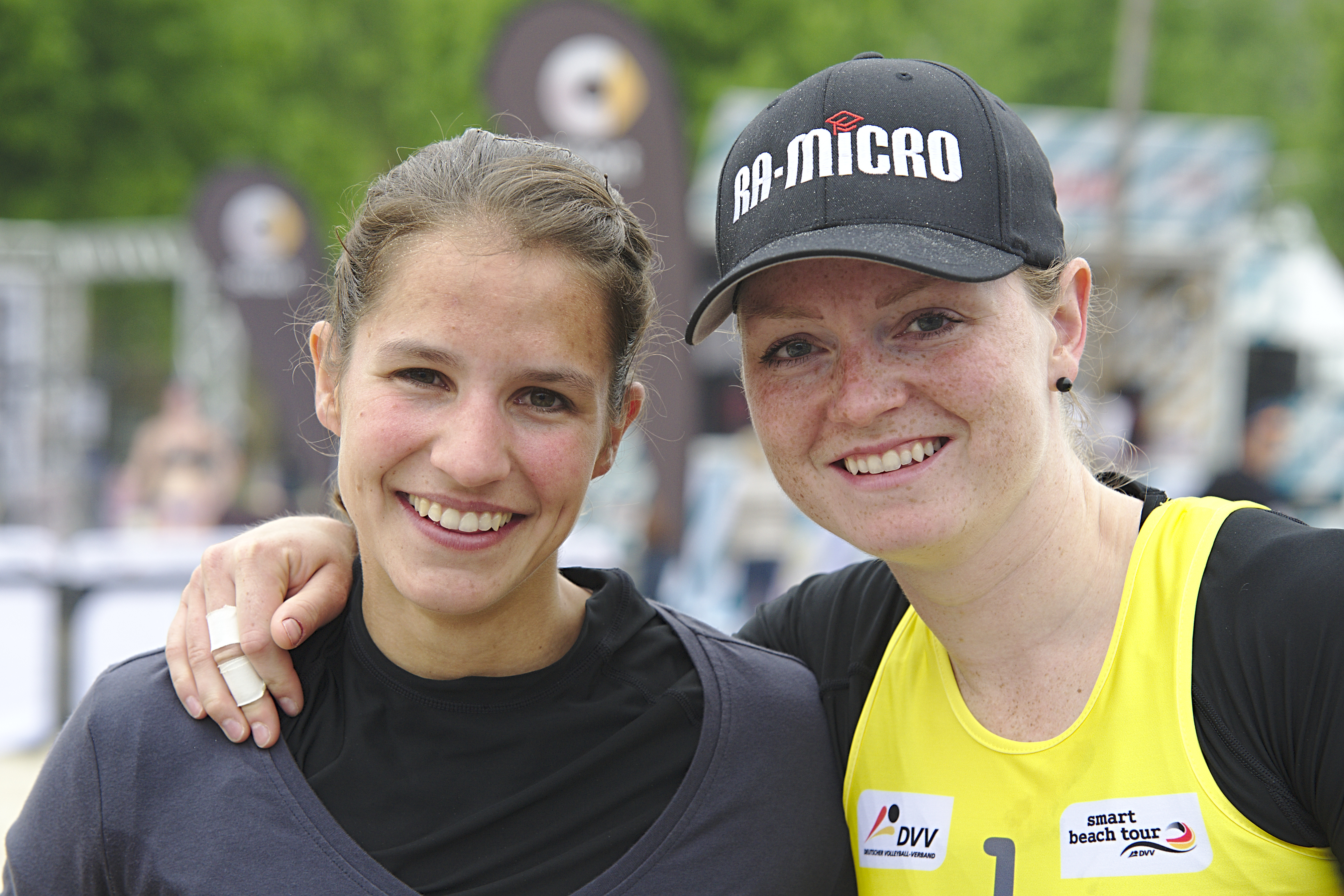 The German beach volleyball players Chantal Laboureur (left) and Julia Sude (right) at the Smart Beach Tour tournament in Münster 2017.